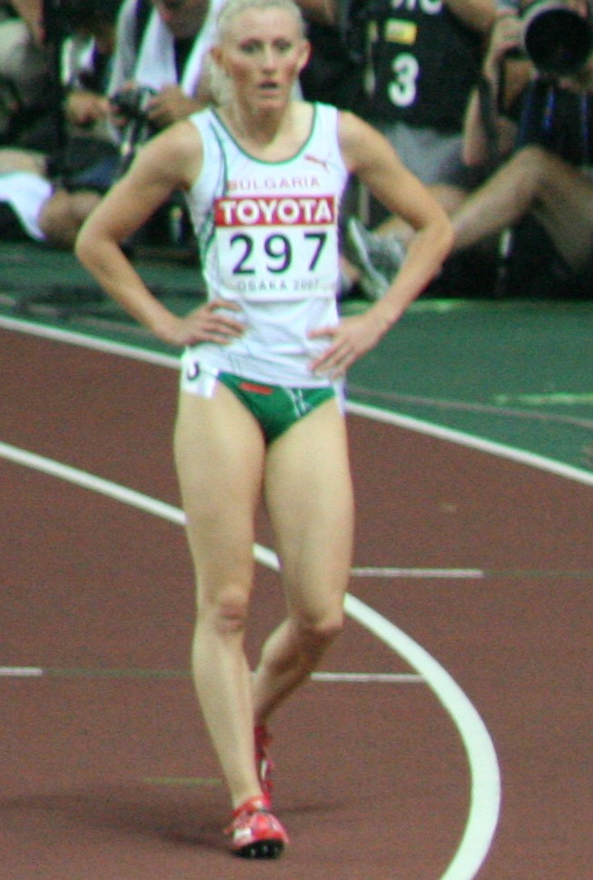 World Athletics Championships 2007 in Osaka - Bulgarian sprinter Tezzhan Naimova